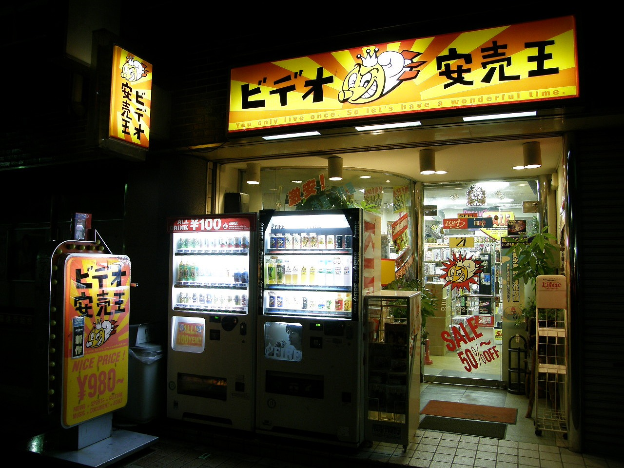 video-yasuuriou-sannomiya ビデオ安売王 三宮店 神戸市中央区 兵庫県神戸市中央区布引町３丁目２－１コスモビルディング